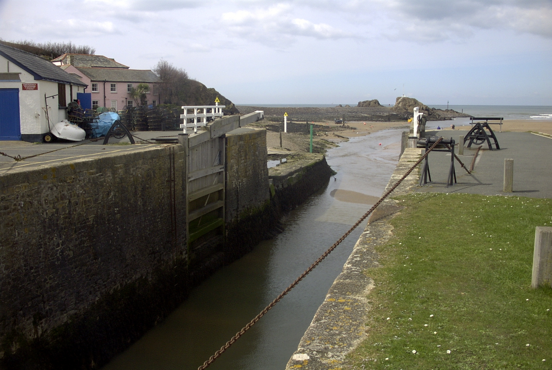 Taken myself shows bude haven from the top gates of the sea lock.